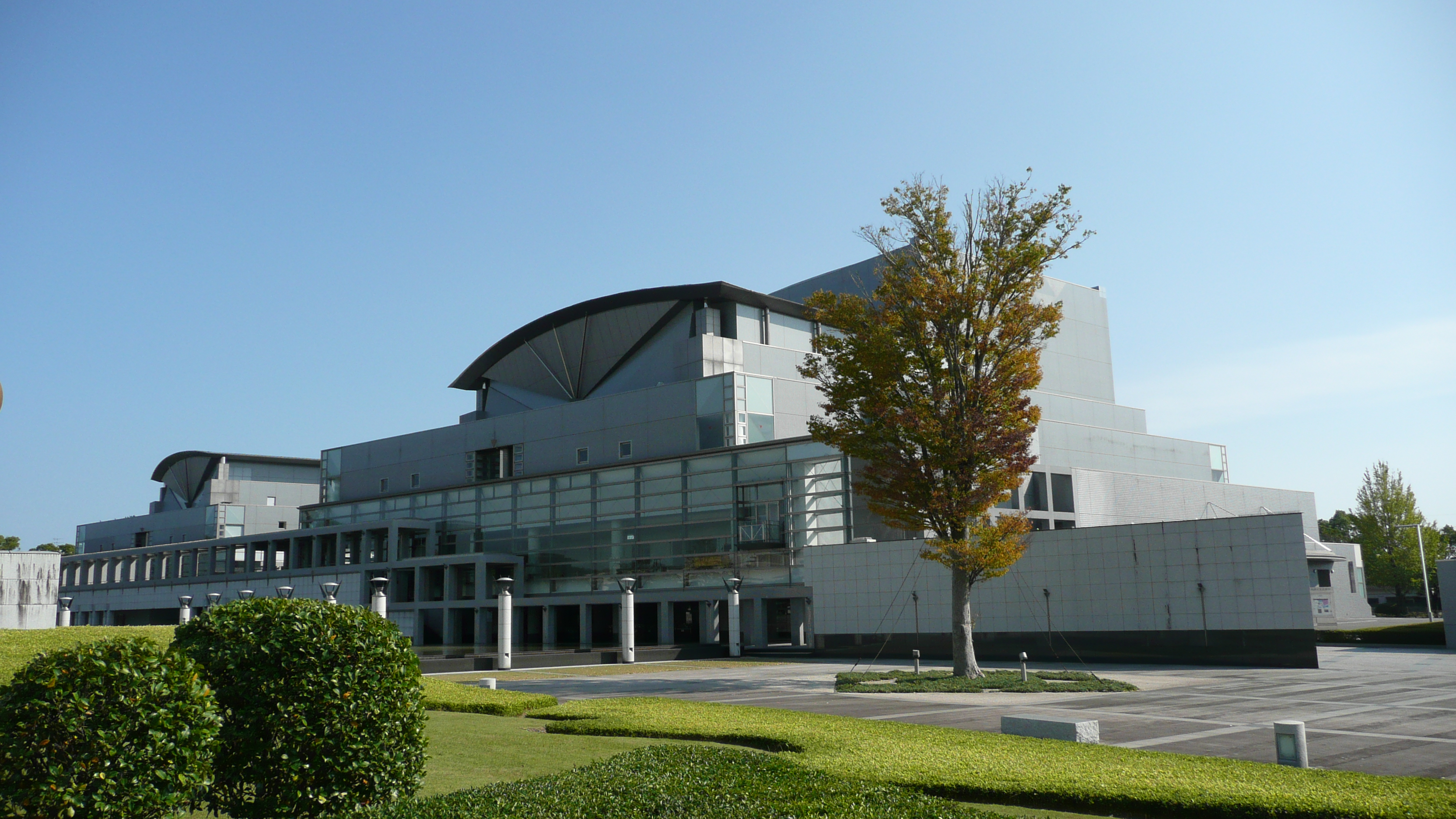 Miyazaki Prefectural Arts Center